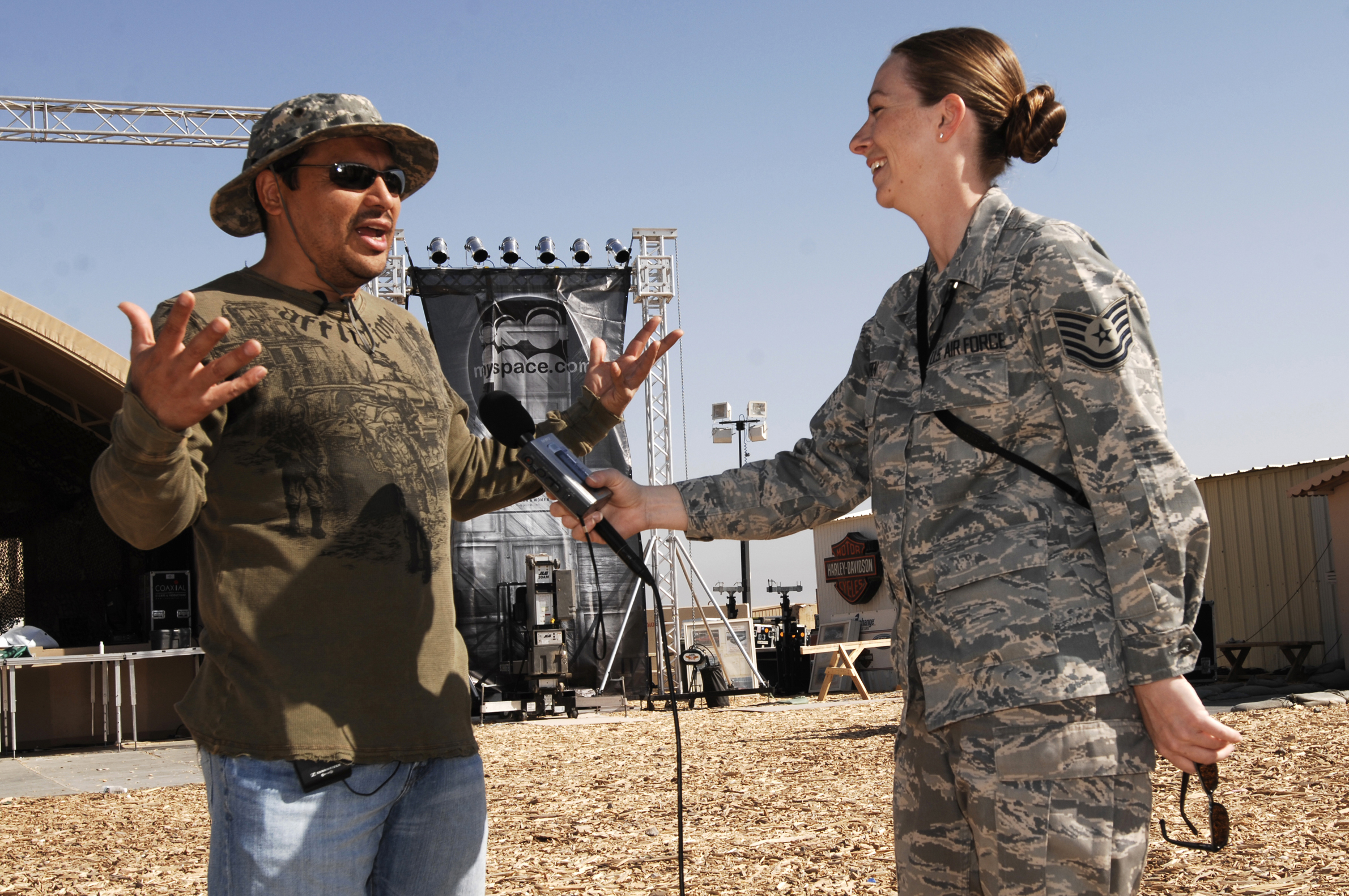 Technical Sgt. Tara O'Brien interviewing Carlos Mencia prior to a live concert at a U.S. Army camp in the Persian Gulf Region on March 9, 2008